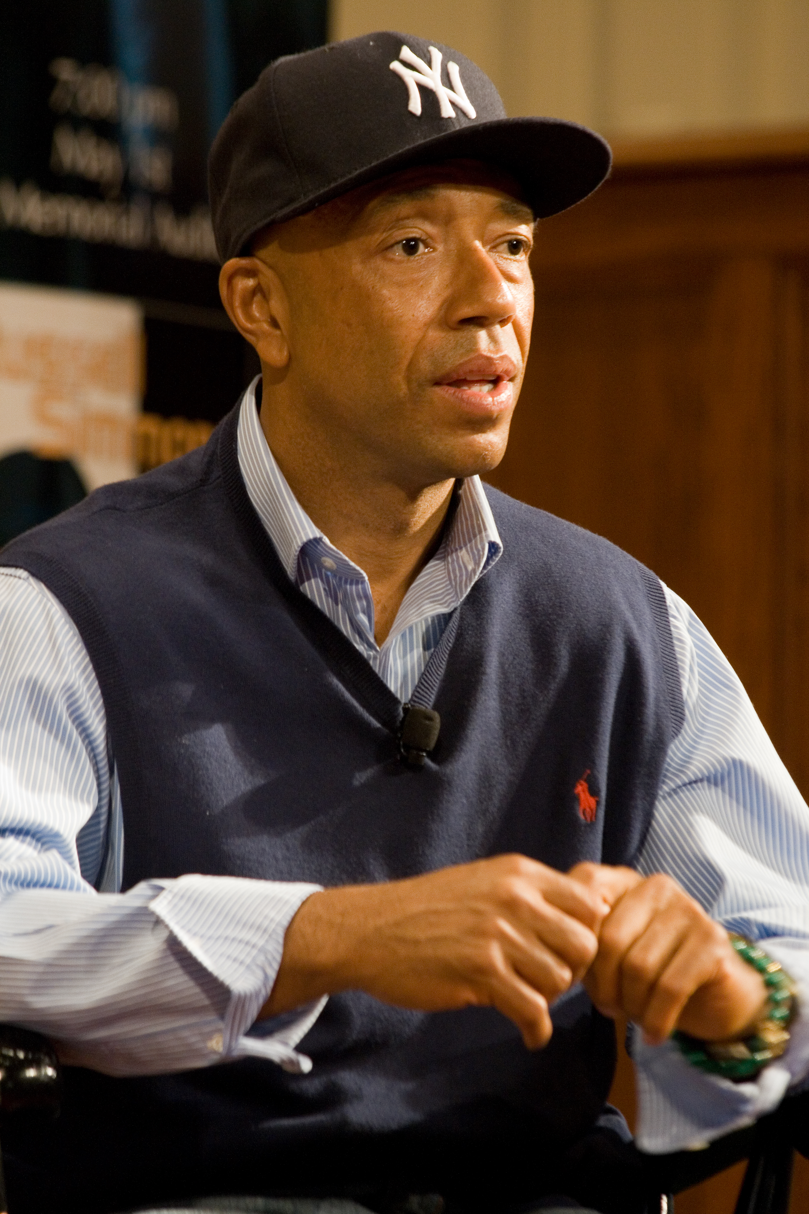 Russell Simmons at Emory University